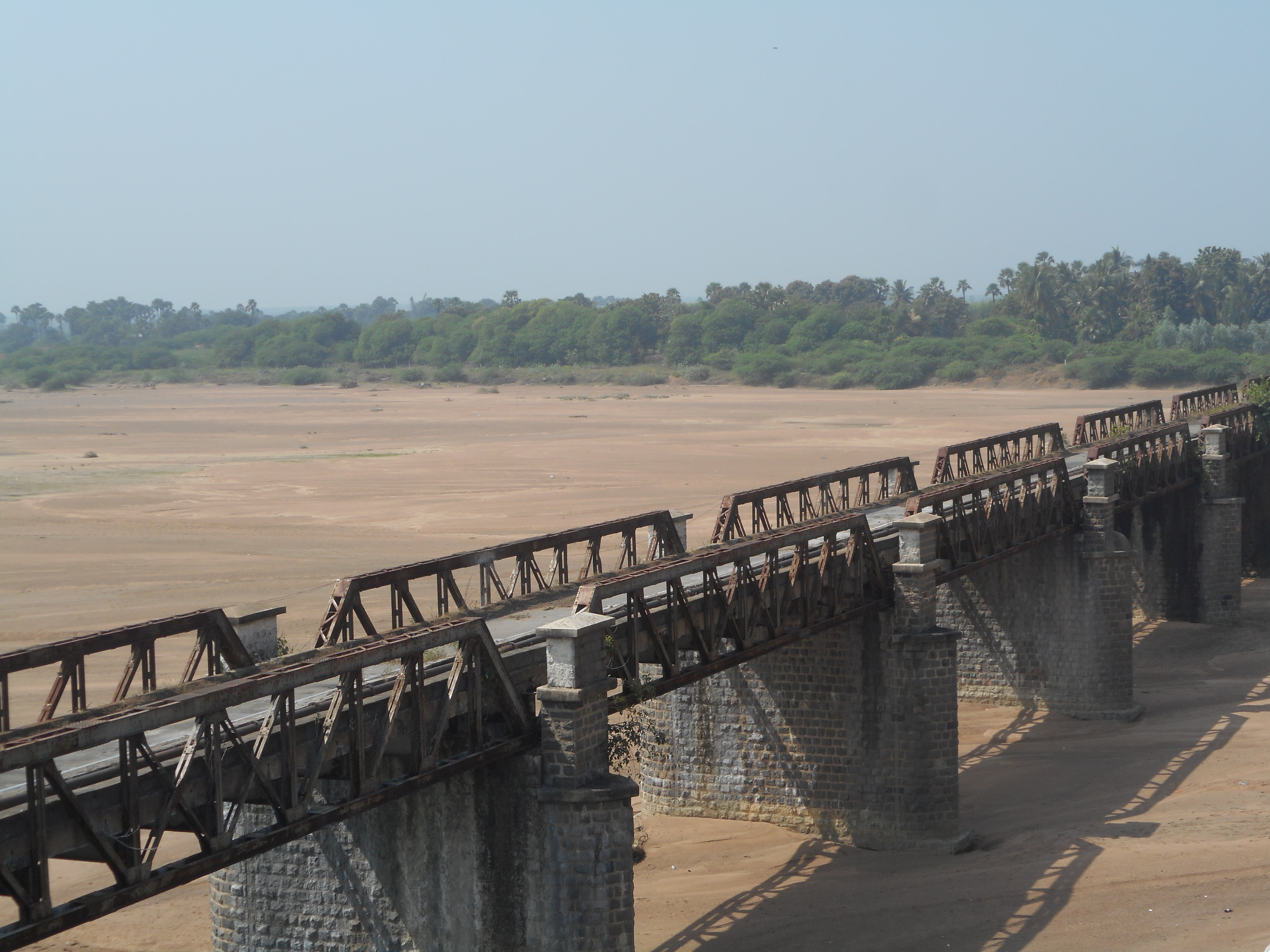 Sand dunes formed by Munneru River near old bridge at keesara village (Kanchikacherla mandal) of krishna district in Winter season